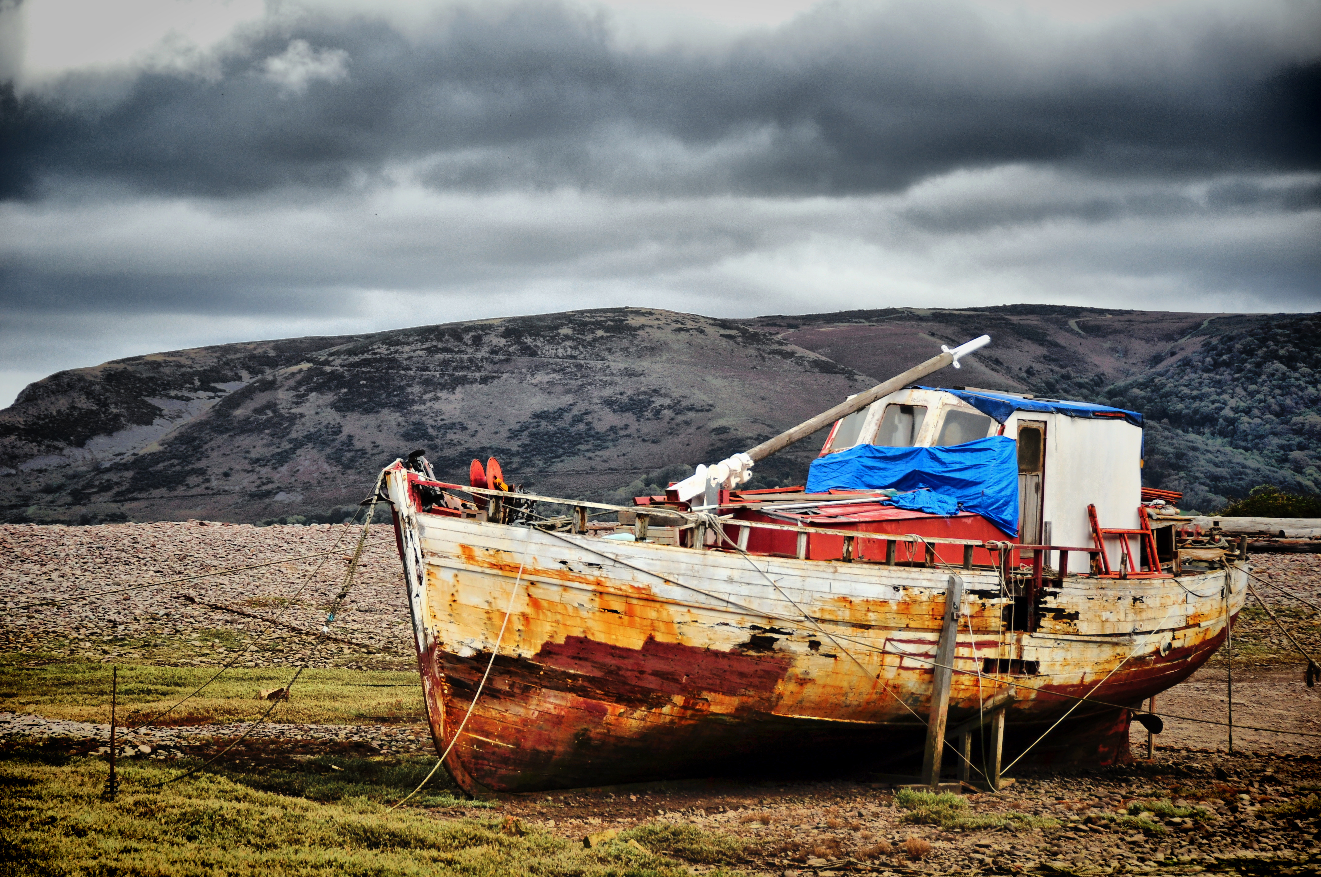 Rusting Boat